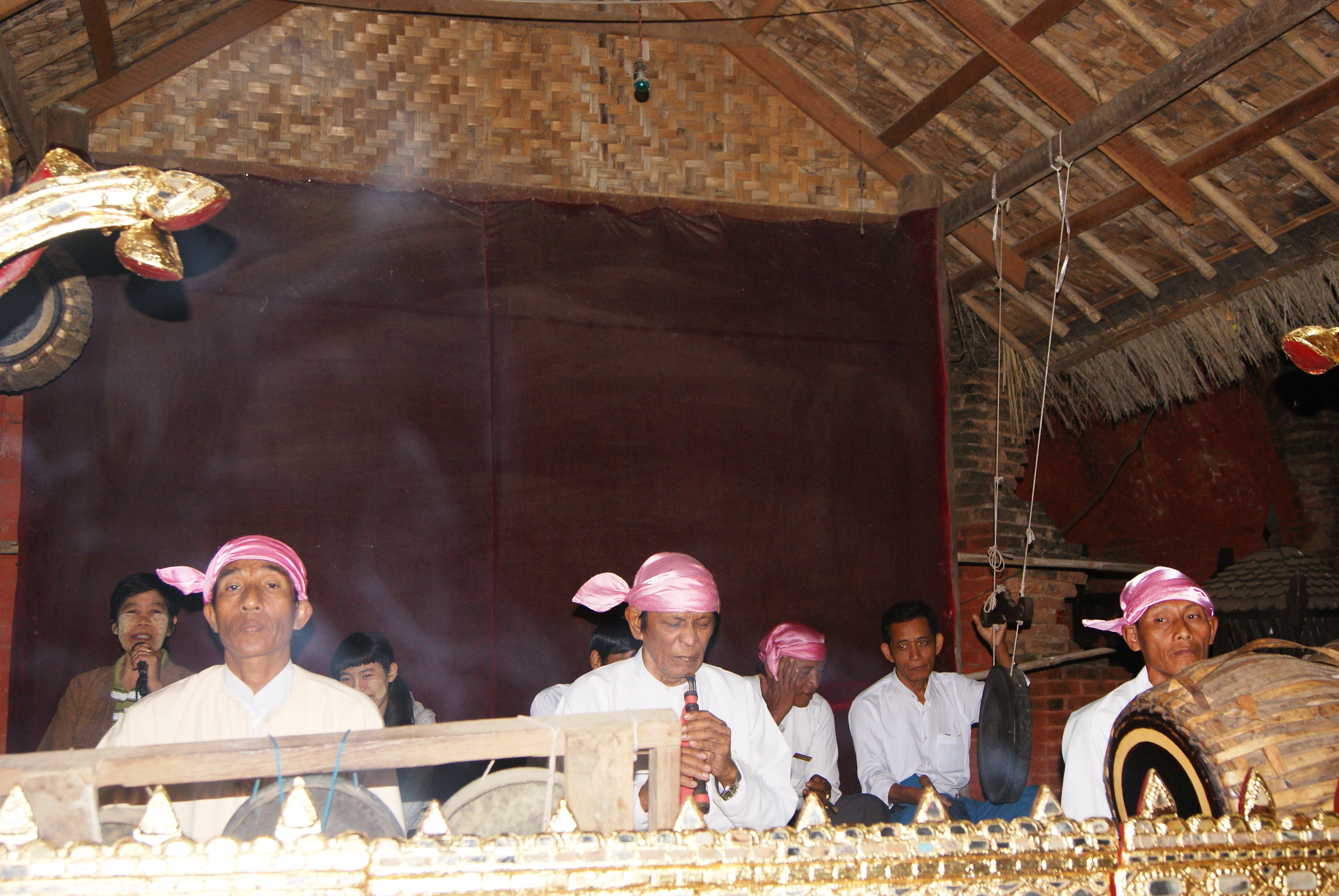 Traditional yoke thé (puppetry) show musicians at the Nanda Restaurant in Bagan, Myanmar.